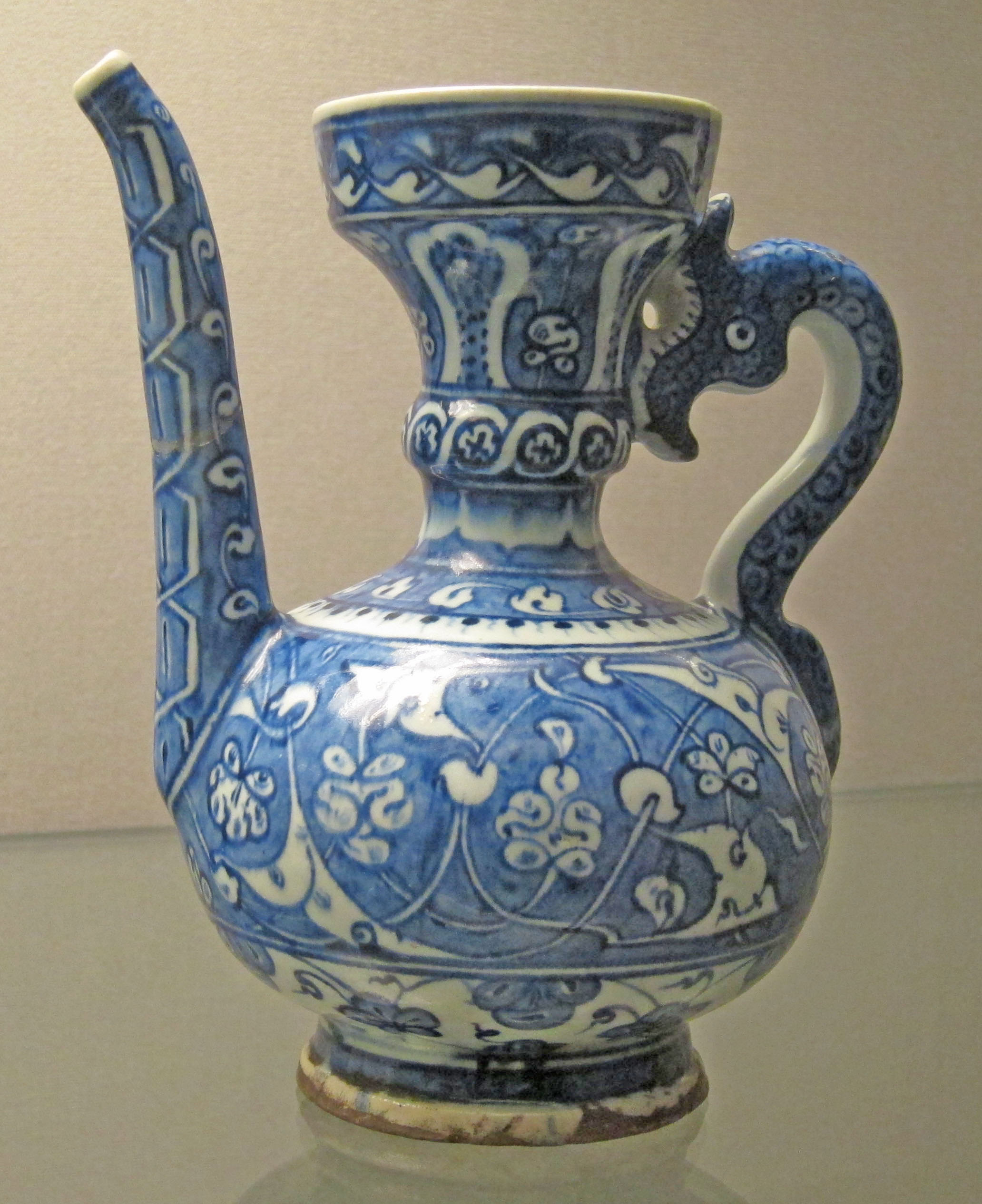 Jug from Kütahya with an underglaze inscription